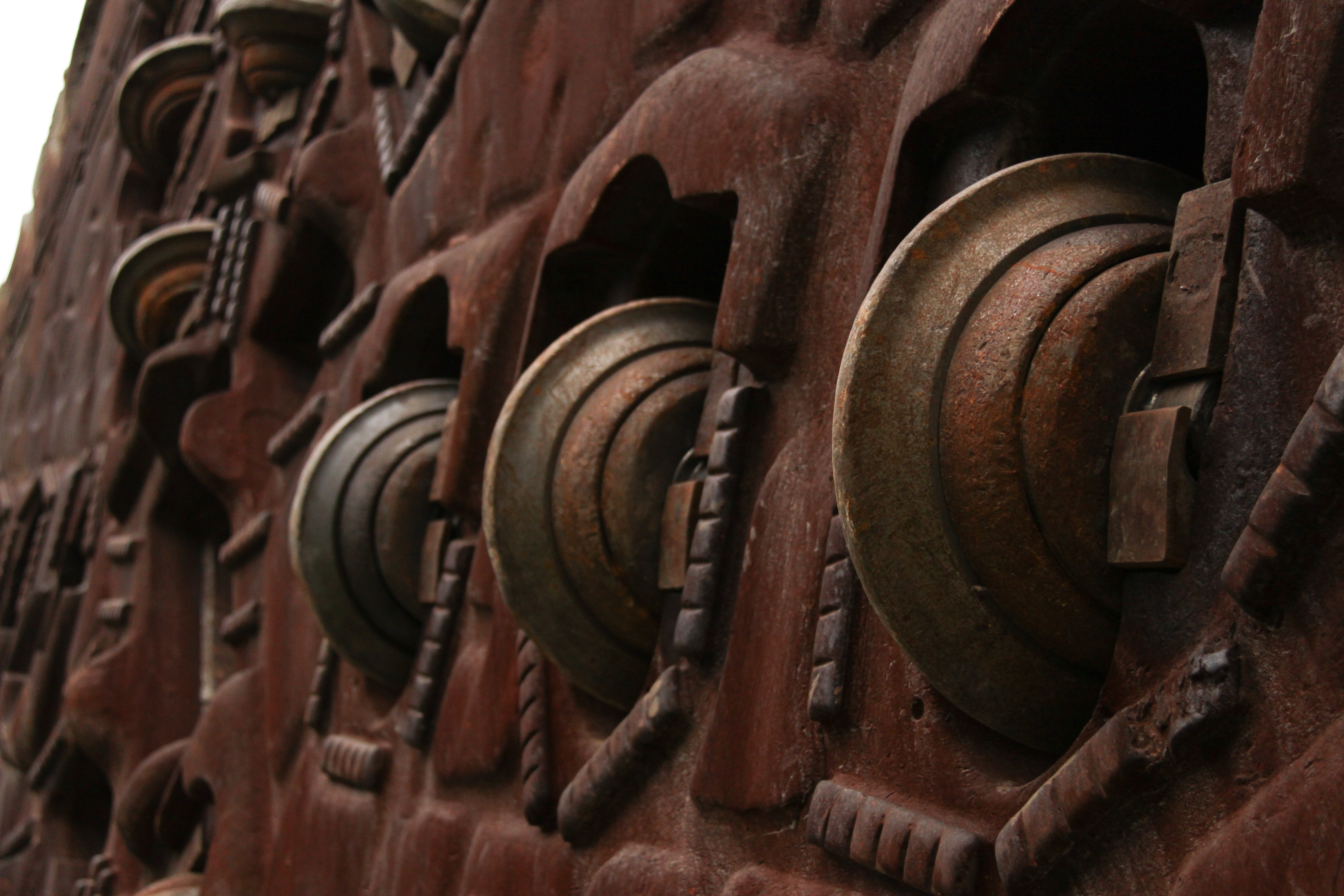 This drill head is standing in front of the visitor centre in Pollegio, TI (Switzerland). It was used to drill a part of the Gotthard Base Tunnel.